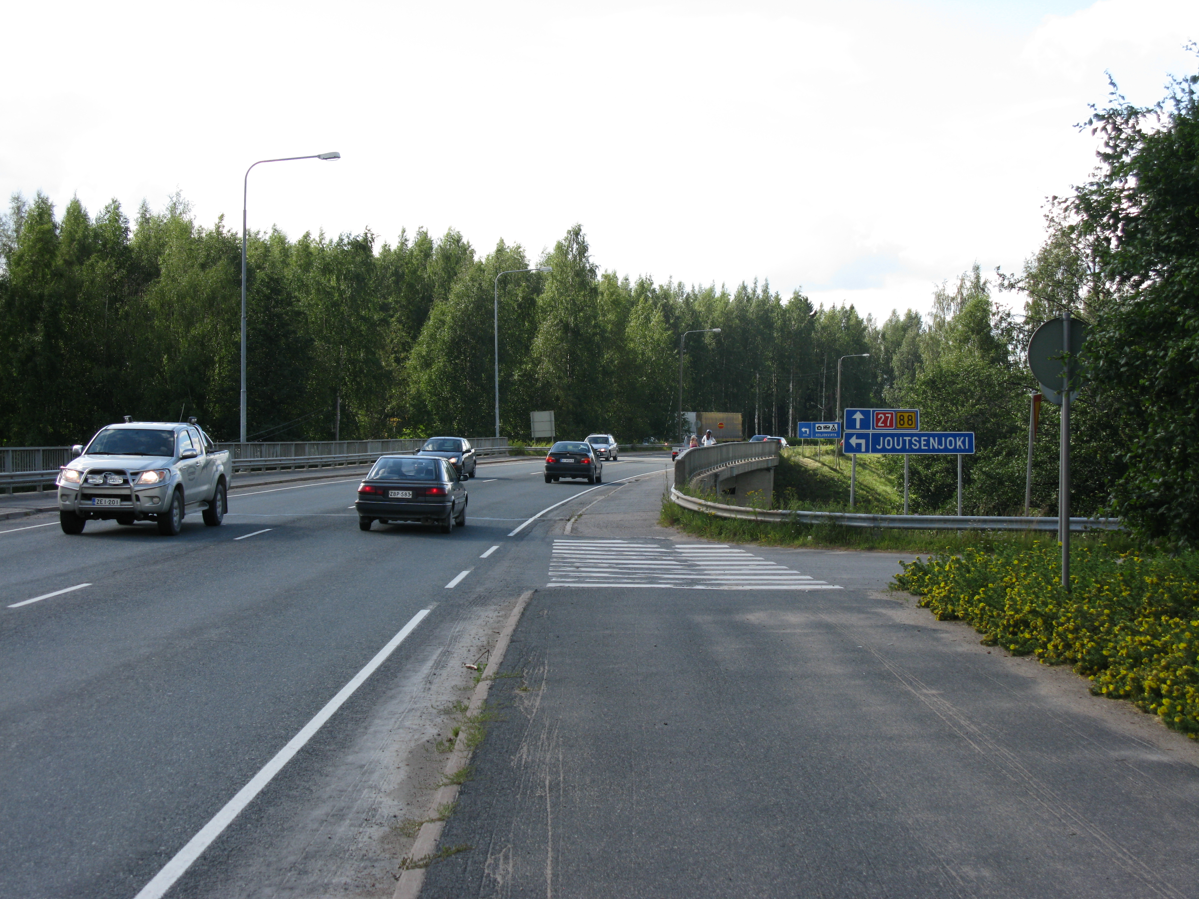 Main road 27 (and main road 88) at Koljonvirta, Iisalmi, Finland, seen towards the West.